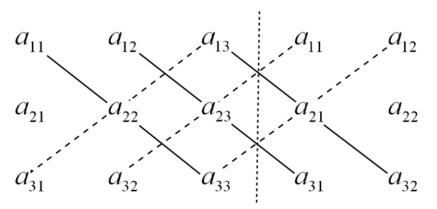 illustration of sarrus' rule for the computation of the determinant of 3x3 matrix